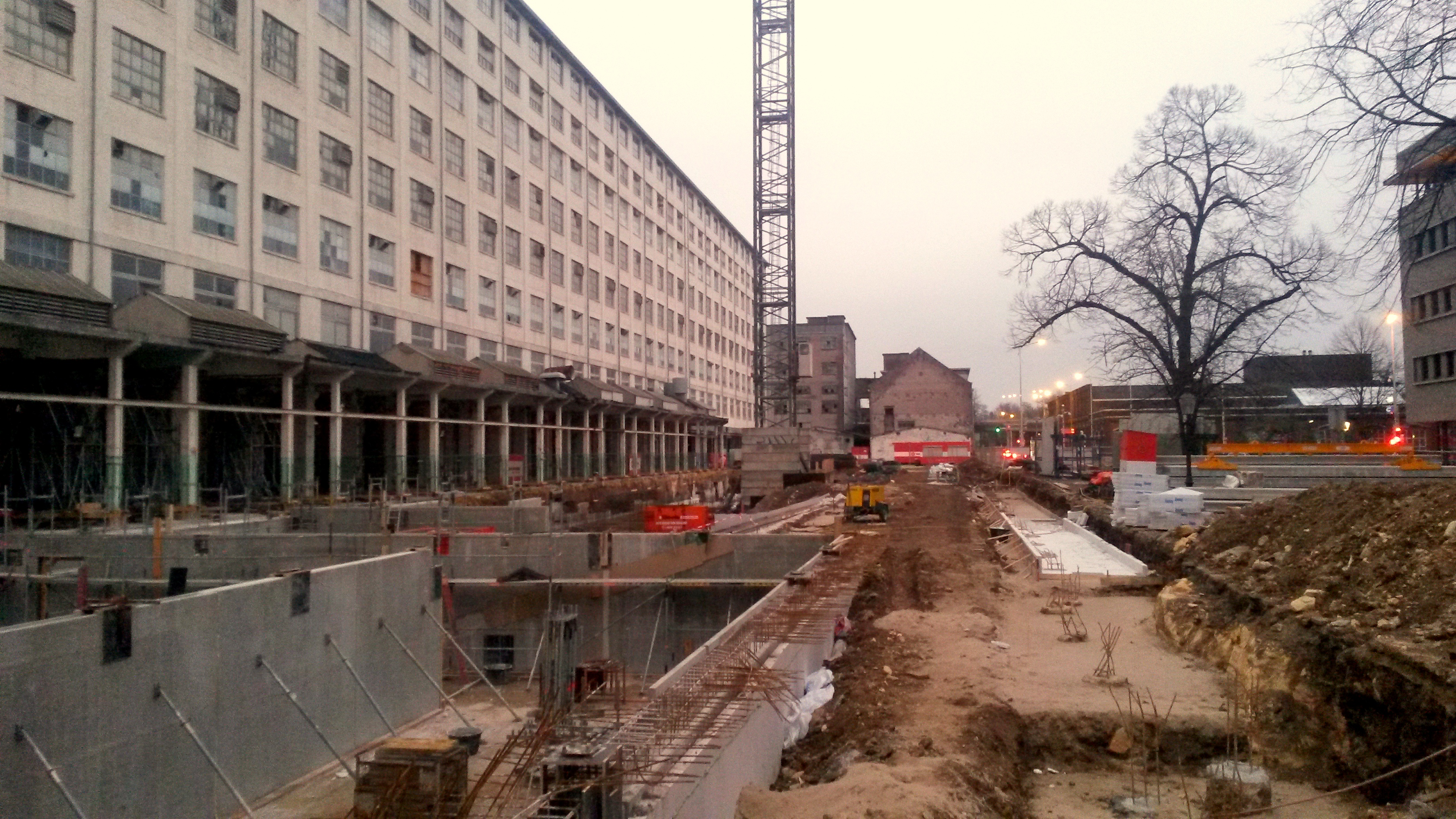 2015-02-07: Eiffel building in Maastricht.